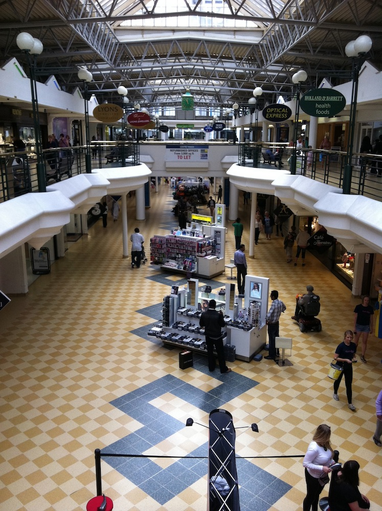 Inside Whitgift Centre, Croydon, UK.